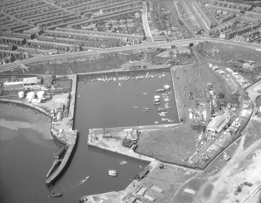 Aerial view of North Dock, Sunderland, June 1957 (TWAM ref. DT.TUR/2/17890D). This set of aerial images is intended as a short historical tour of the River Wear from the Piers to Pallion. It gives us an impression of what the River looked like during the middle years of the Twentieth Century, when it was a hive of industrial activity. Sunderland had an international reputation for shipbuilding and this is well represented in this set with images of its famous shipyards such as Austin & Pickersgill, J.L. Thompson & Sons and Sir James Laing & Sons. The River Wear was also home to a thriving marine engineering industry, reflected here by images of the engine works of William Doxford & Sons and George Clark. Other industries are also featured such as glassmaking and of course the key industry of coal mining. Mining is represented by images of Wearmouth Colliery and the riverside coal staithes, which were vital to the coal trade. These images reflect how much the River Wear has changed over the past 50 years, with the disappearance of traditional heavy industries. Those businesses may have gone but Sunderland can be proud of its industrial heritage and the men and women who worked on Wearside and helped to shape the City we know today. (Copyright) We're happy for you to share this digital image within the spirit of The Commons. Please cite 'Tyne & Wear Archives & Museums' when reusing. Certain restrictions on high quality reproductions and commercial use of the original physical version apply though; if you're unsure please .